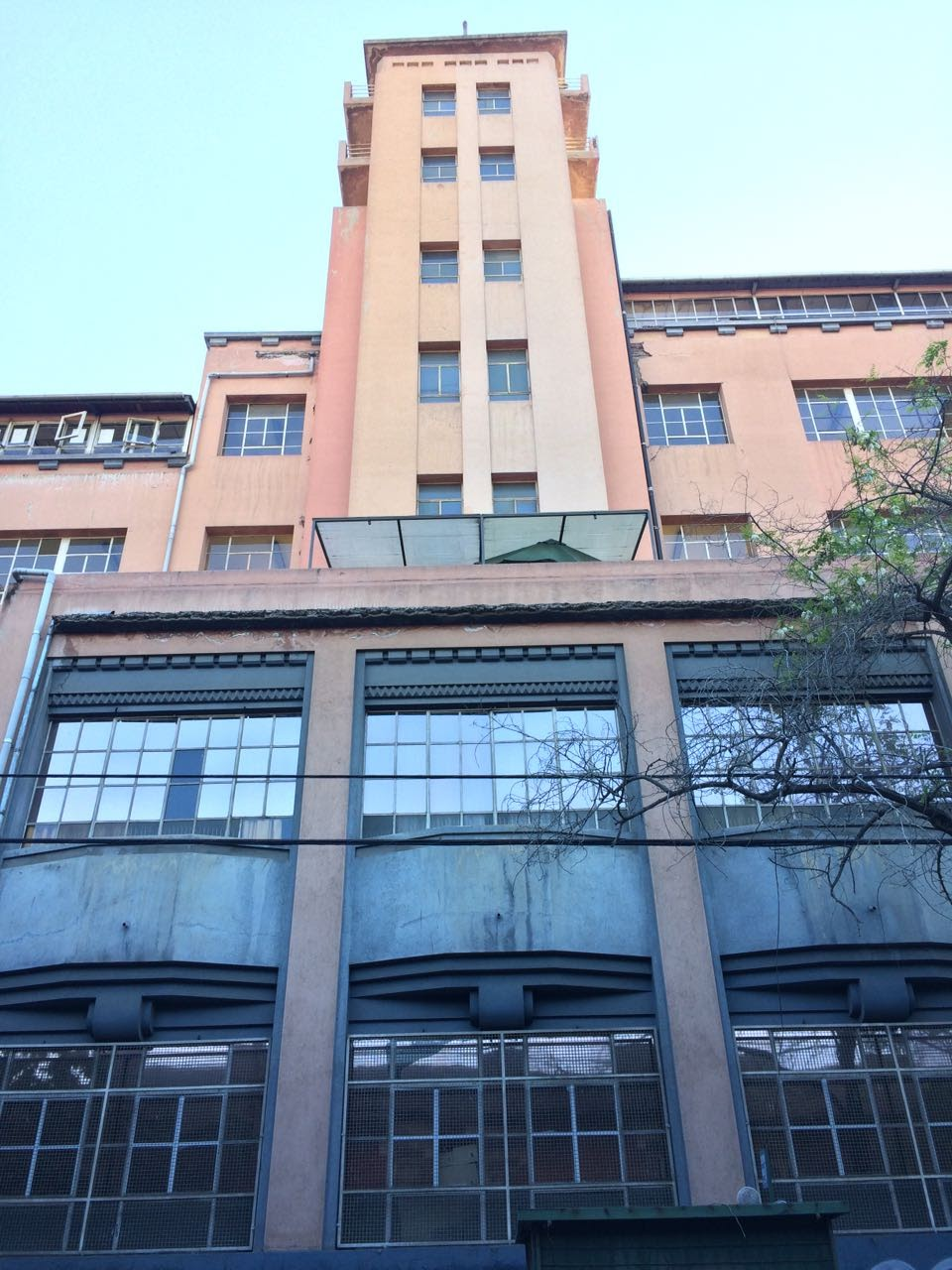 Front view from Maruri Street (Independencia disctrict)